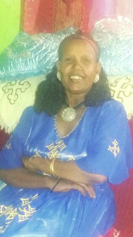 Ethiopian wollo mom dressed with traditional cloth,hair style and jewels This is an image of Cultural Fashion or Adornment from Ethiopia